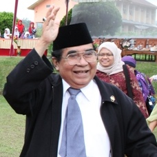 Azwar Anas, Governor of West Sumatra (1977—1987), Minister of Transportation of Indonesia (1988—1993), and Coordinating Minister for People's Welfare of Indonesia (1993-1998).